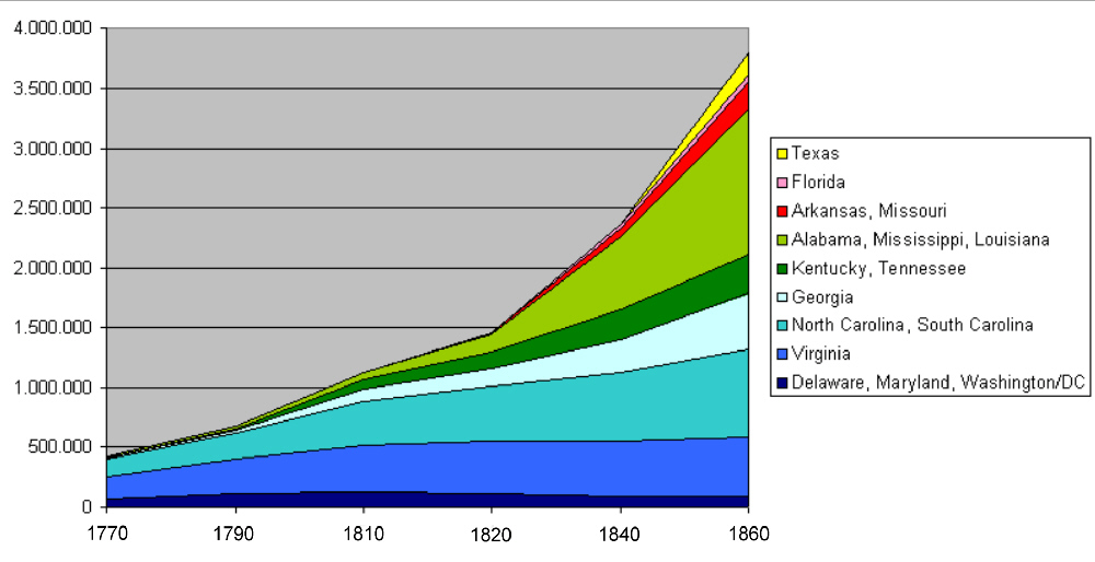 Slave Population in the Southern States of the U. S.